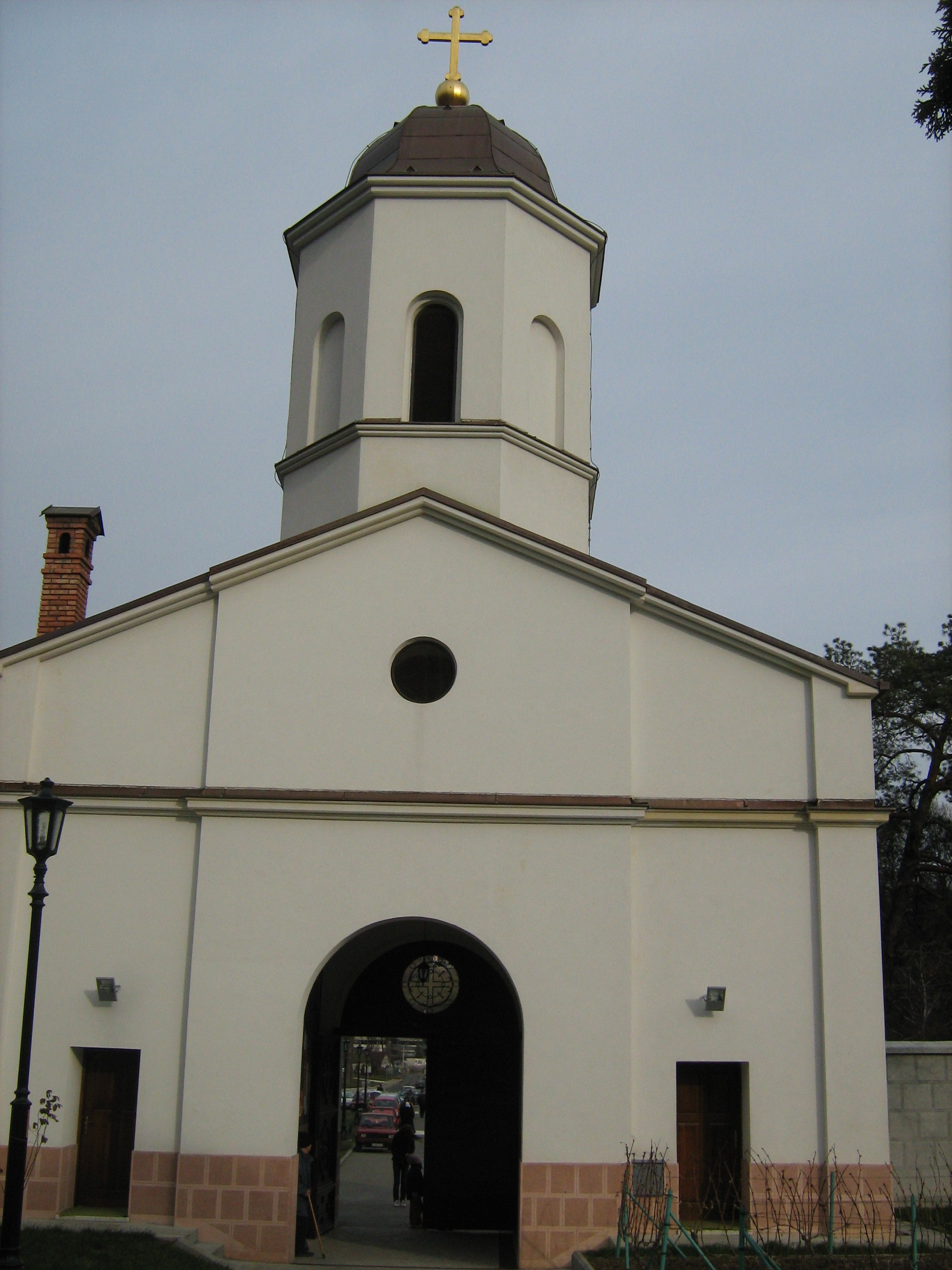 Rakovica monastery, Serbian Orthodox Church monastery in Belgrade